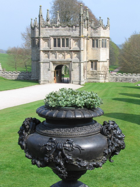 The Gatehouse, Lanhydrock House This is a view of the rear of the Gatehouse down towards The Avenue.